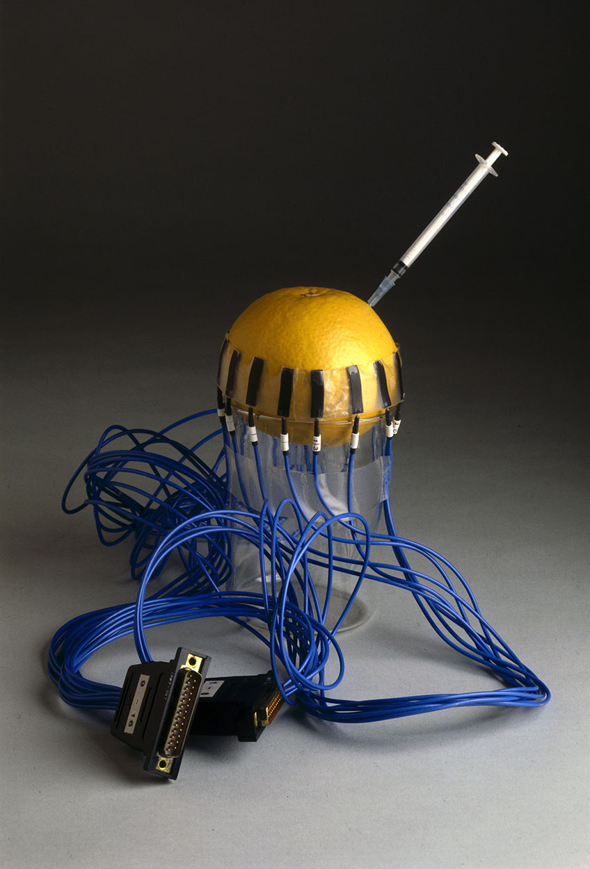 This apparatus was developed by Professor B H Brown at the Royal Hallamshire Hospital, Sheffield, England. In APT, now renamed electrical impedence tomography, electrodes attached to the body apply tiny electrical signals, which other electrodes pick up. Changes in the strength and timing of these signals are analyzed by computer to create an image. The electrodes are illustrated attached to a grapefruit which is standing in for a child's head and liquid is injected into the 'head' to mimic a brain haemorrhage.